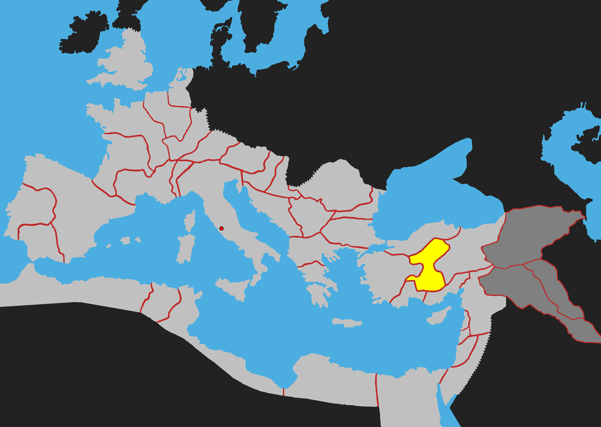 Description: provinces of the Roman Empire (Imperium Romanum) Source: own work Date: December 2005 Author: --Immanuel Giel 12:49, 13 December 2005 (UTC) Other versions: none